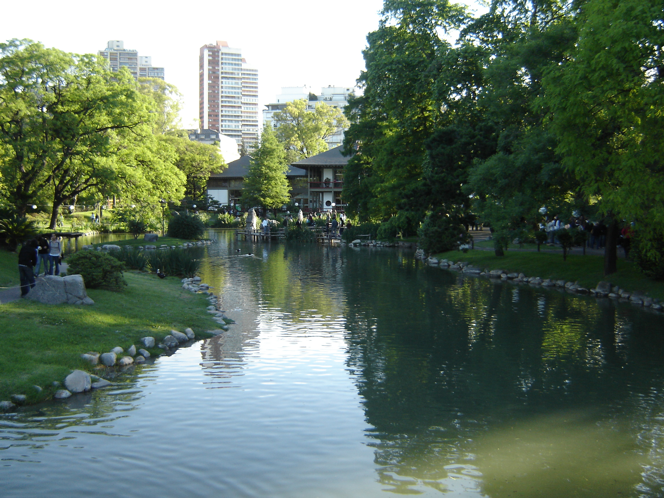 Buenos Aires Japanese Garden